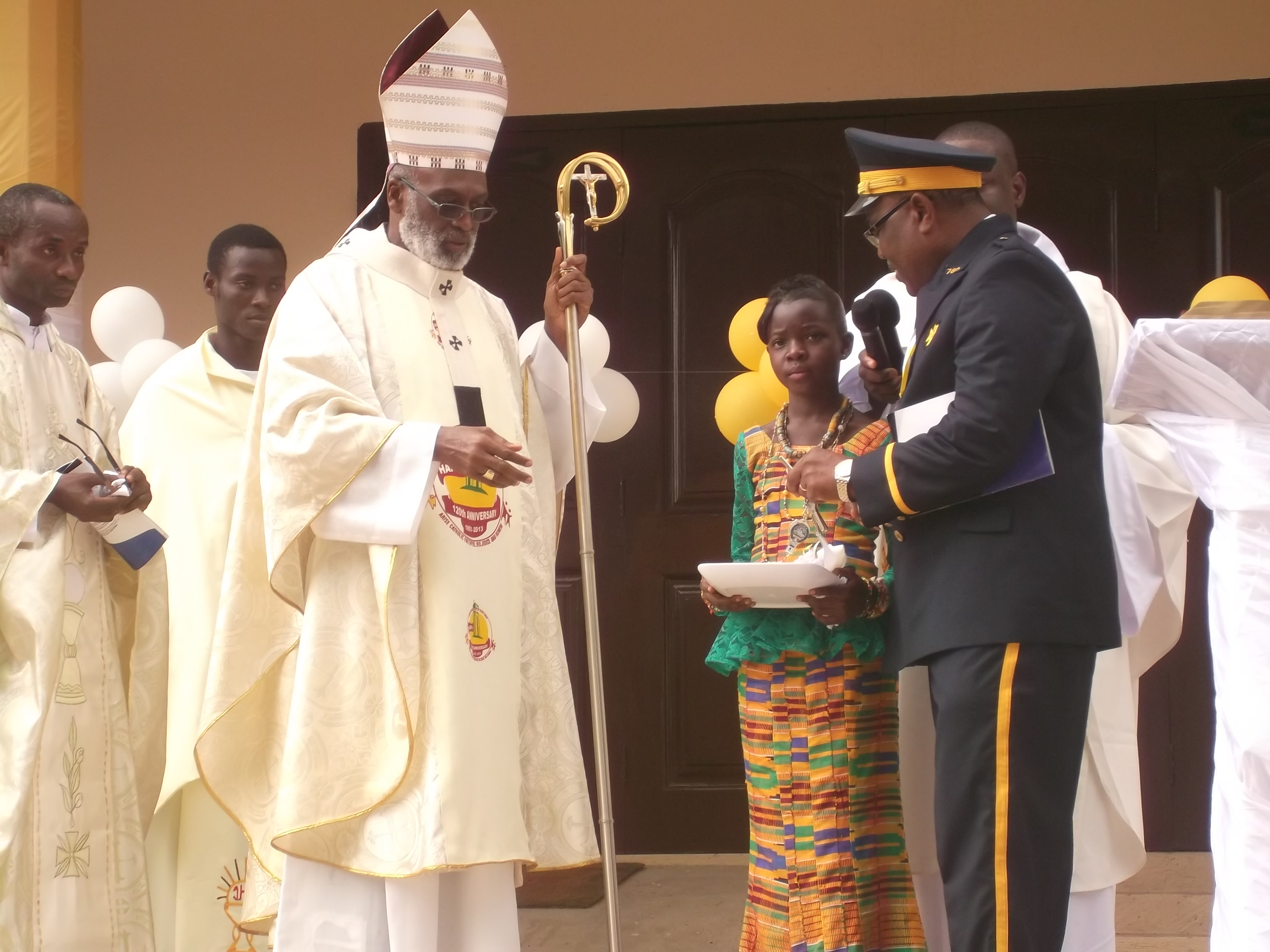 Parish Chairman Fiifi Sackey hands over church keys to Acrbishop of Accra